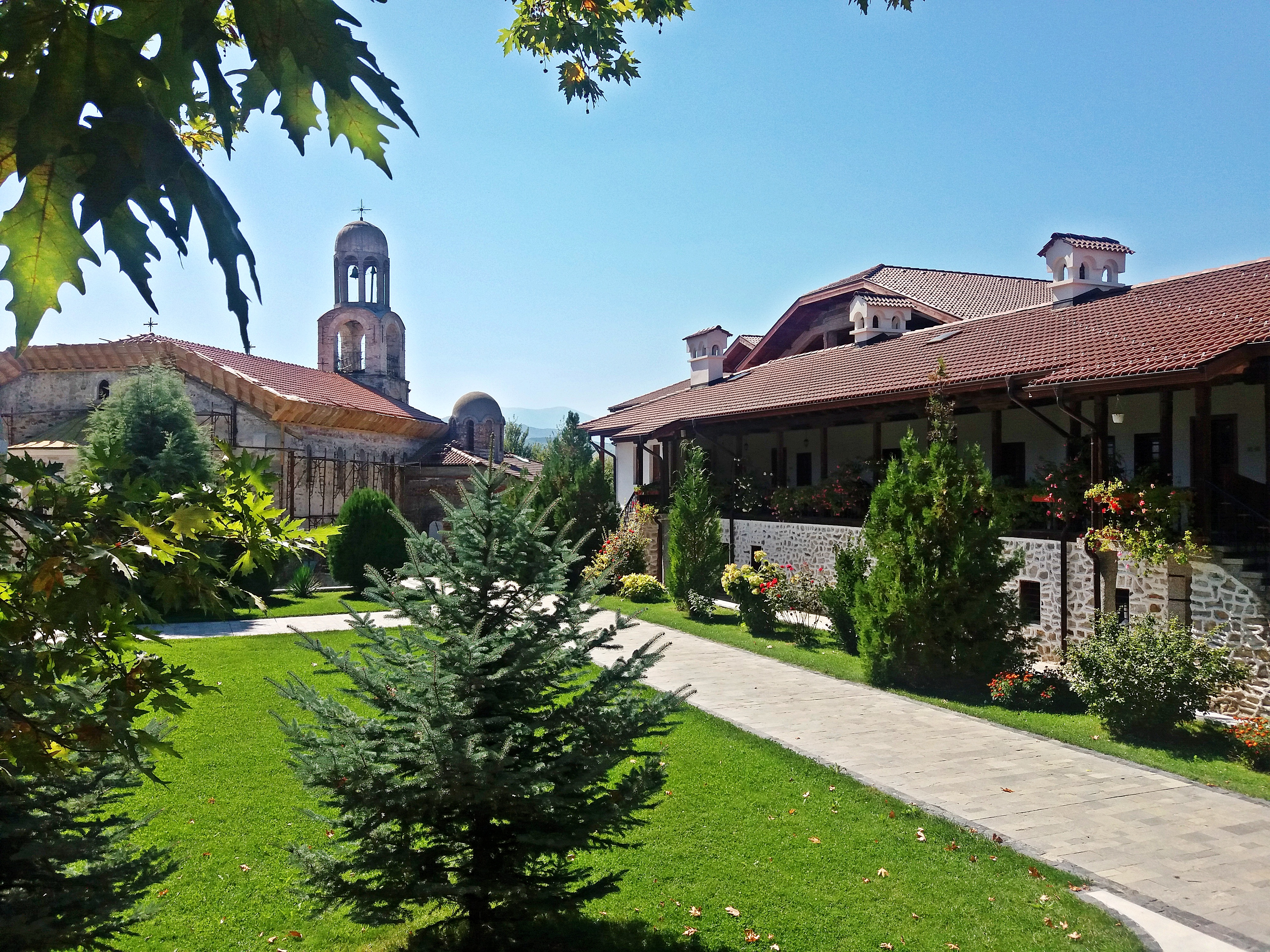 "Saint George" monastery, Hadzhimovo, Bulgaria